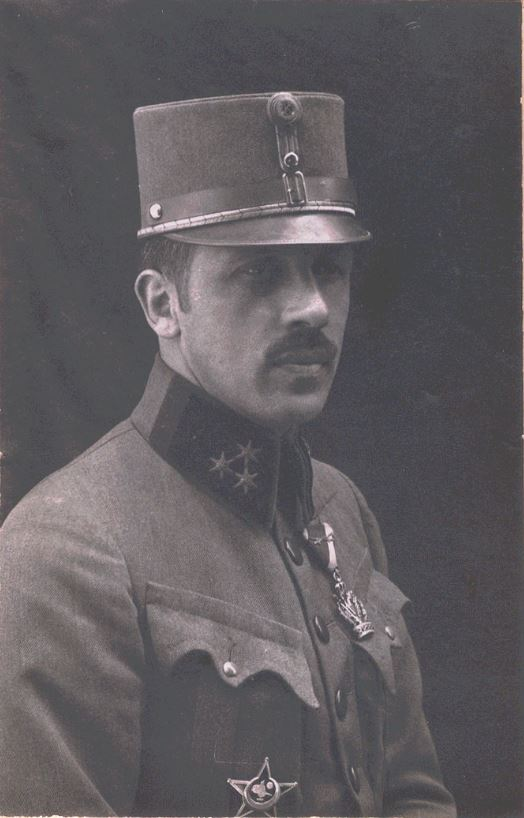 Capt. Camillo Ruggera (1885-1947) during the First World War (1915-1918).Camillo Ruggera was born in 1885 in Predazzo (now Italy) and in spite of his Italian ethnicity he served in the Austro-Hungarian, then Austrian, then German Army.He was one of the members of the Austro-Hungarian staff involved in the Armistice of Villa Giusti with Italy.After the war he remained an Austrian citizen and served the Bundesheer, the Austrian federal Army; after the union of Austria with Nazi Germany he joined the Wehrmacht that he left with the grade of Lieutenant General. He died in 1947 in Bavaria, Germany.